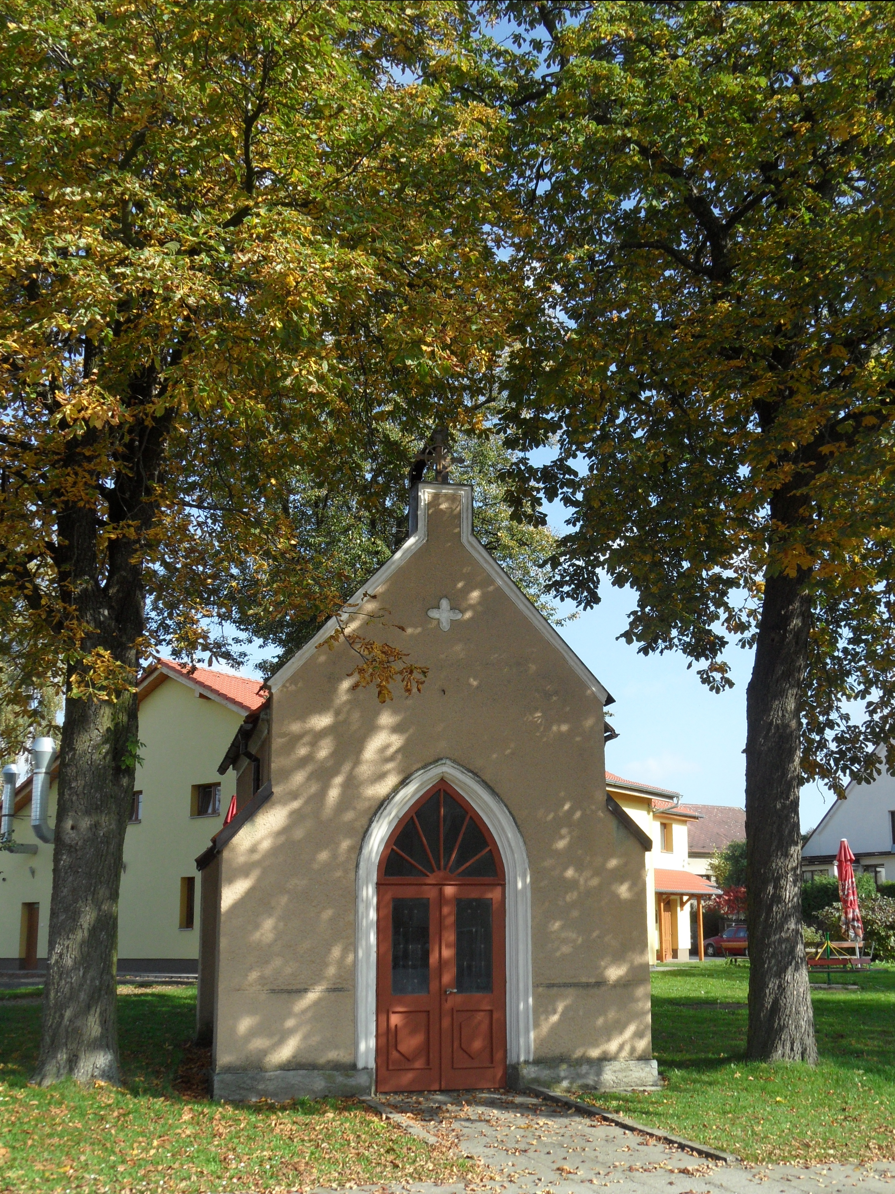 Chmeliště (Vavřinec) A. Chapel, Kutná Hora District, the Czech Republic.